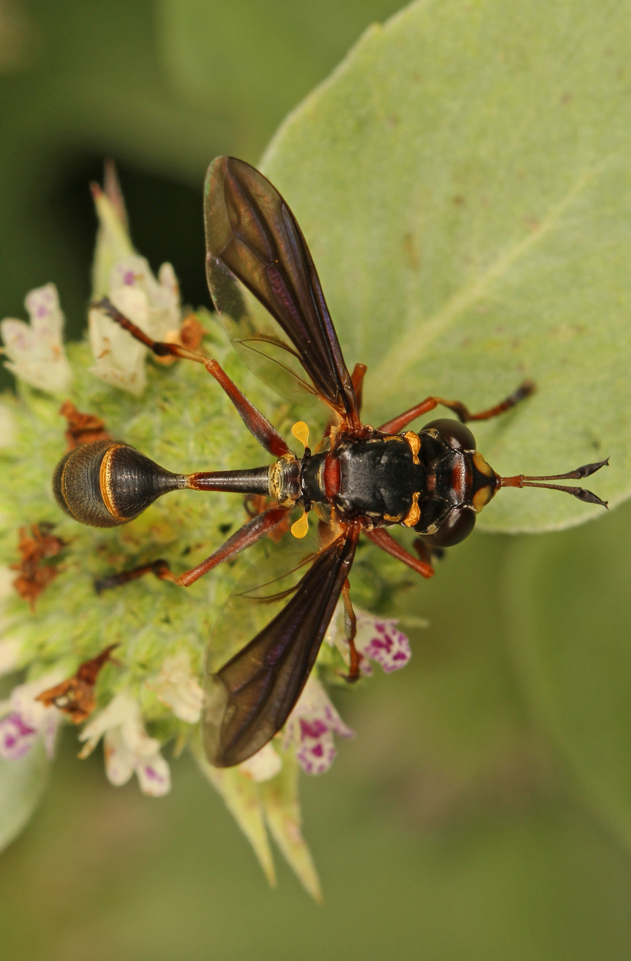 Thick-headed Fly - Physocephala sagittaria, Meadowood Farm SRMA, Mason Neck, Virginia.